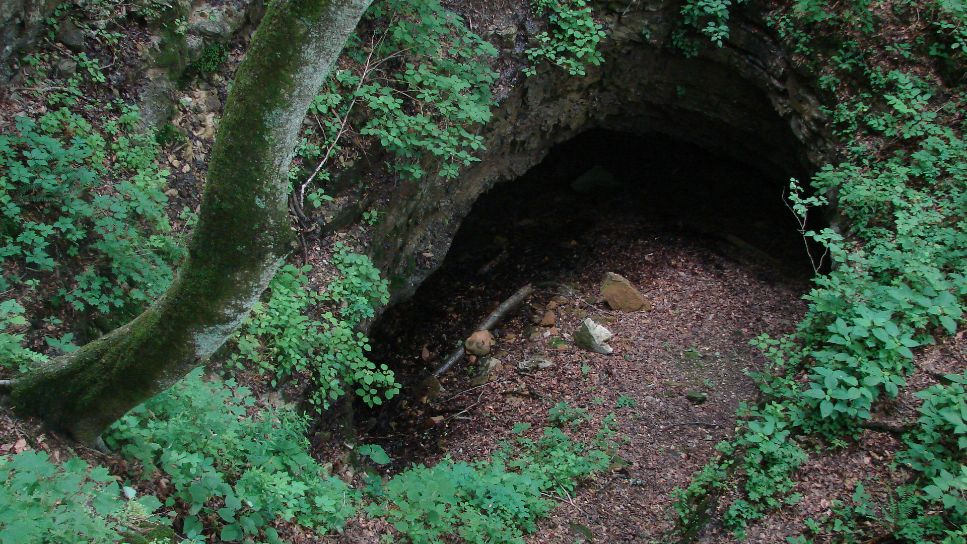 Sand Cave